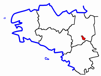 Description: Map for localisazion of cantons of Bretagne region in France Source: made by Hervé Tigier from another large map